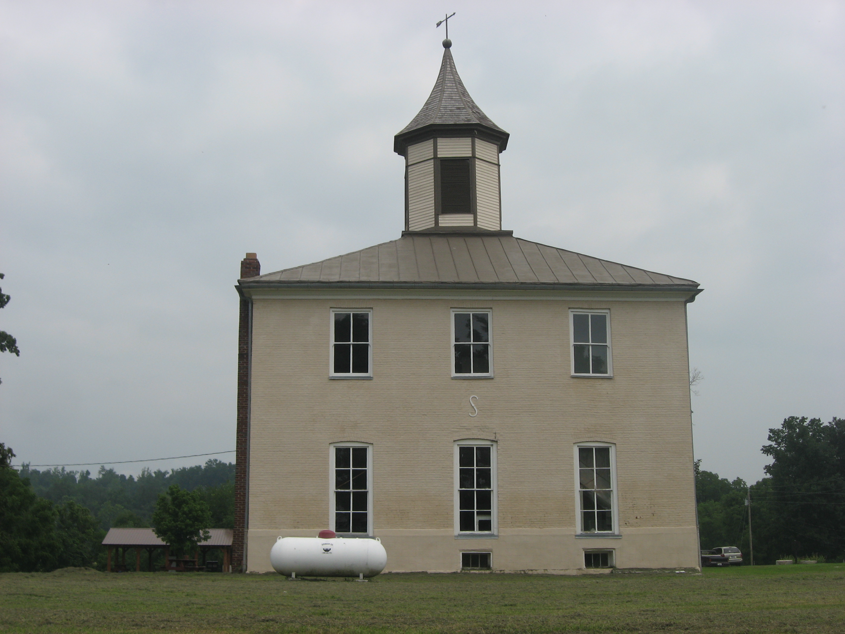 Southern side of the Old Perry County Courthouse, located at the center of Rome, Indiana, United States. Built in 1818, it is listed on the National Register of Historic Places.